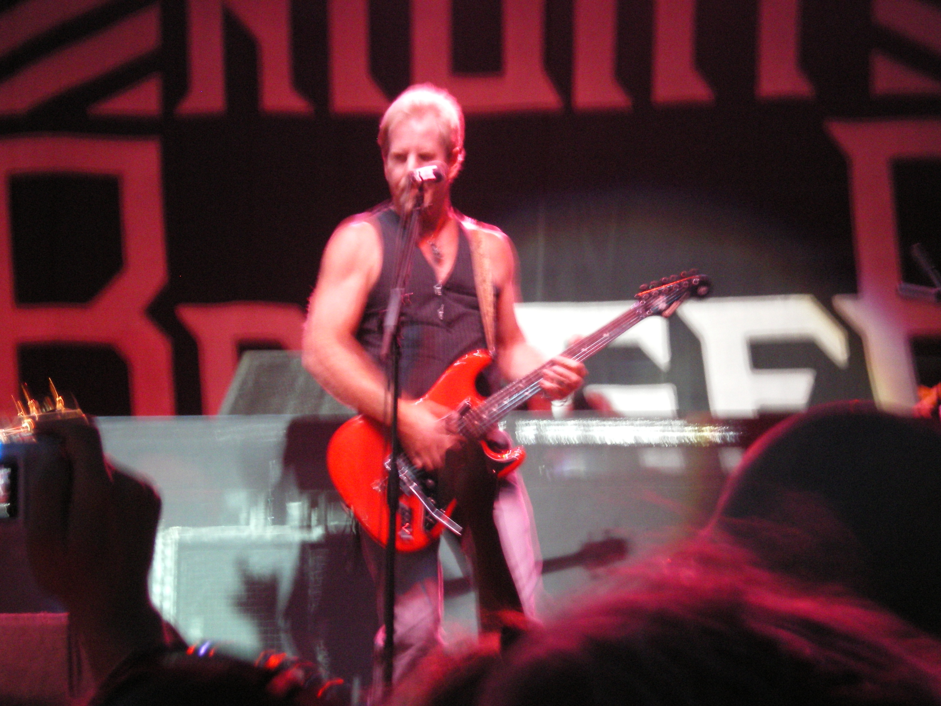 June 6, 2009 at Old Shawnee Days in Shawnee, KS.